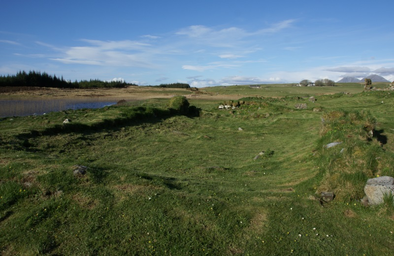 Finlaggan Castle, Islay, Argyll and Bute, Scotland. The great hall.